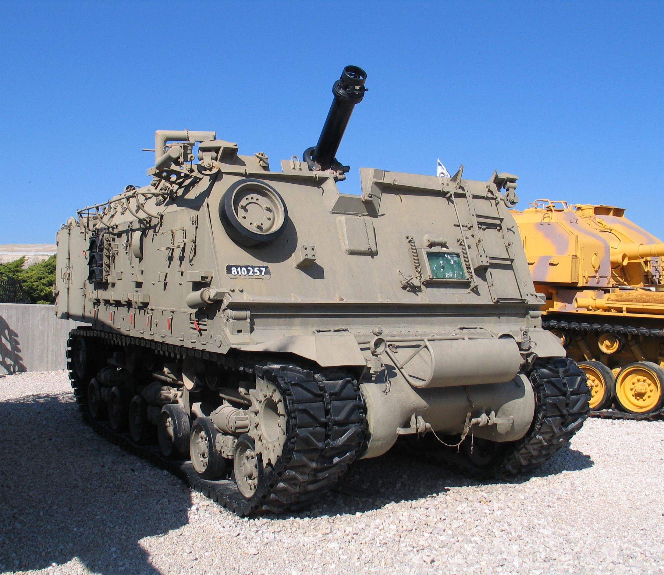 Israeli Makmat 160 mm self-propelled mortar on M4 Sherman chassis in Yad la-Shiryon Museum, Israel.